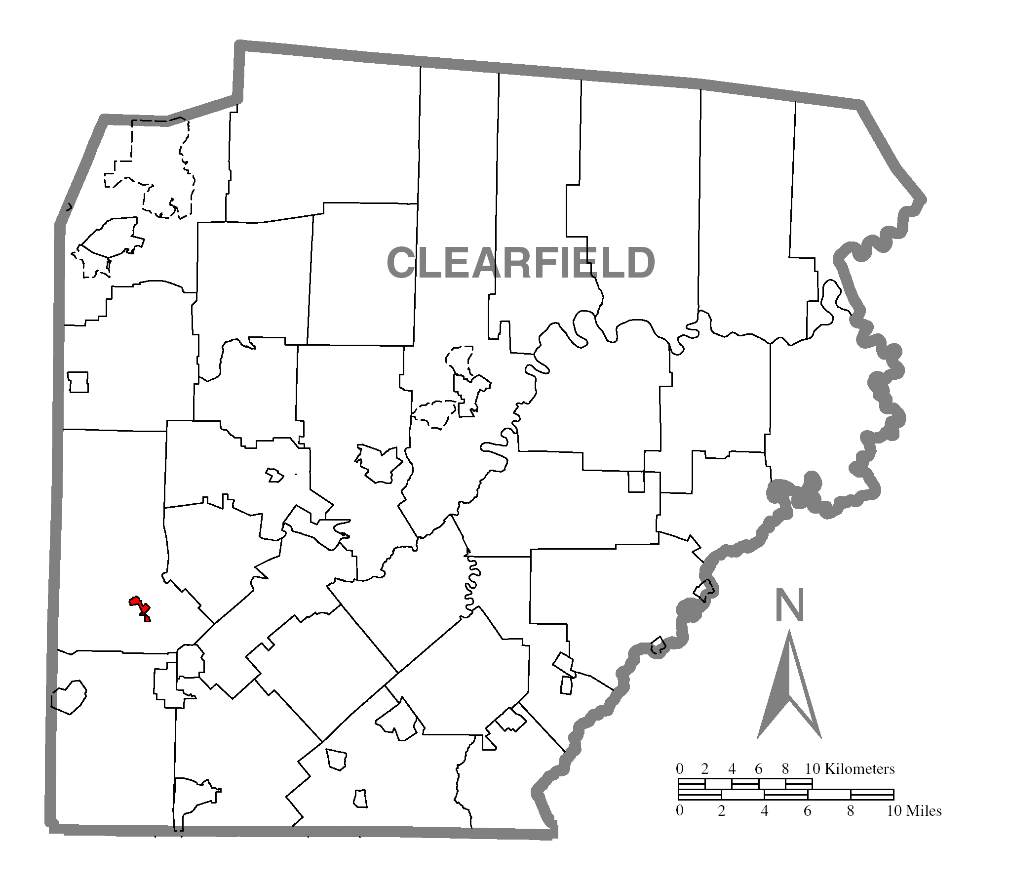 A map of Clearfield County showing Mahaffey, Pennsylvania (alternate) highlighted on the map.